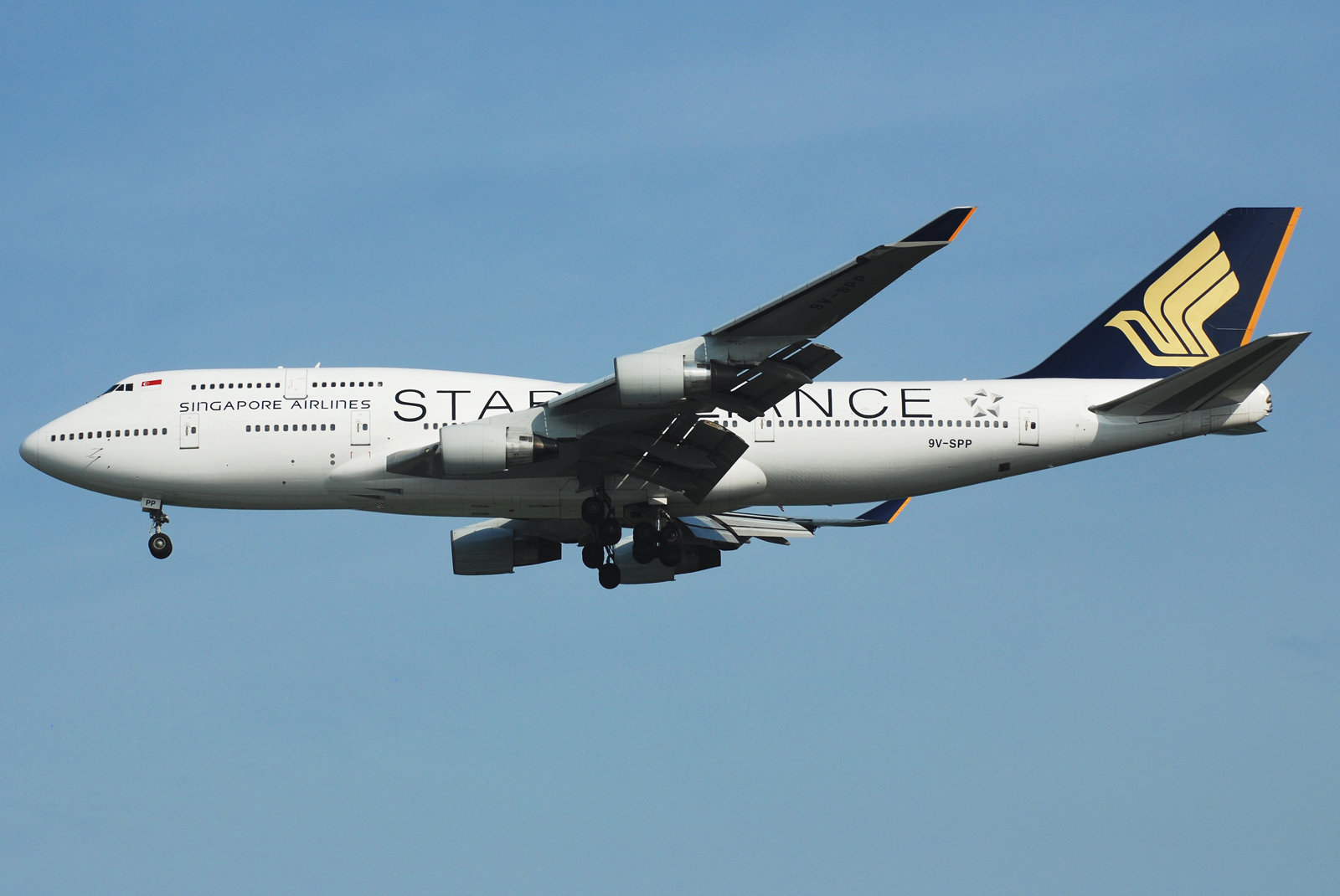 Singapore Airlines Boeing 747-412 (9V-SPP) landing on runway 02L at Singapore Changi Airport.